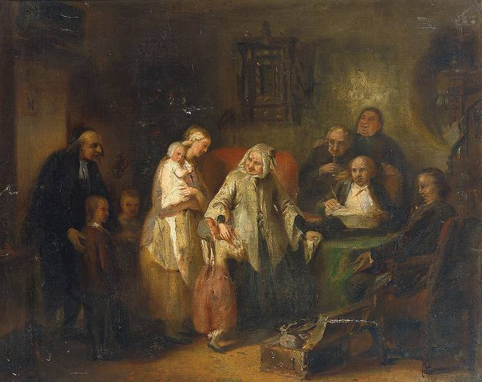 Young widow and four children at the opening of the last will, England 19th century, oil on canvas, 55 x 70 cm